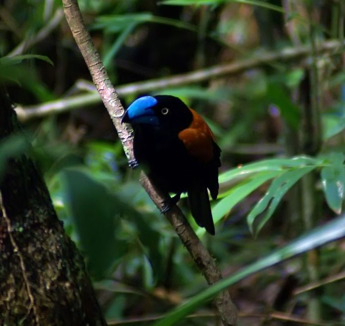 Helmet Vanga - Euryceros prevostii